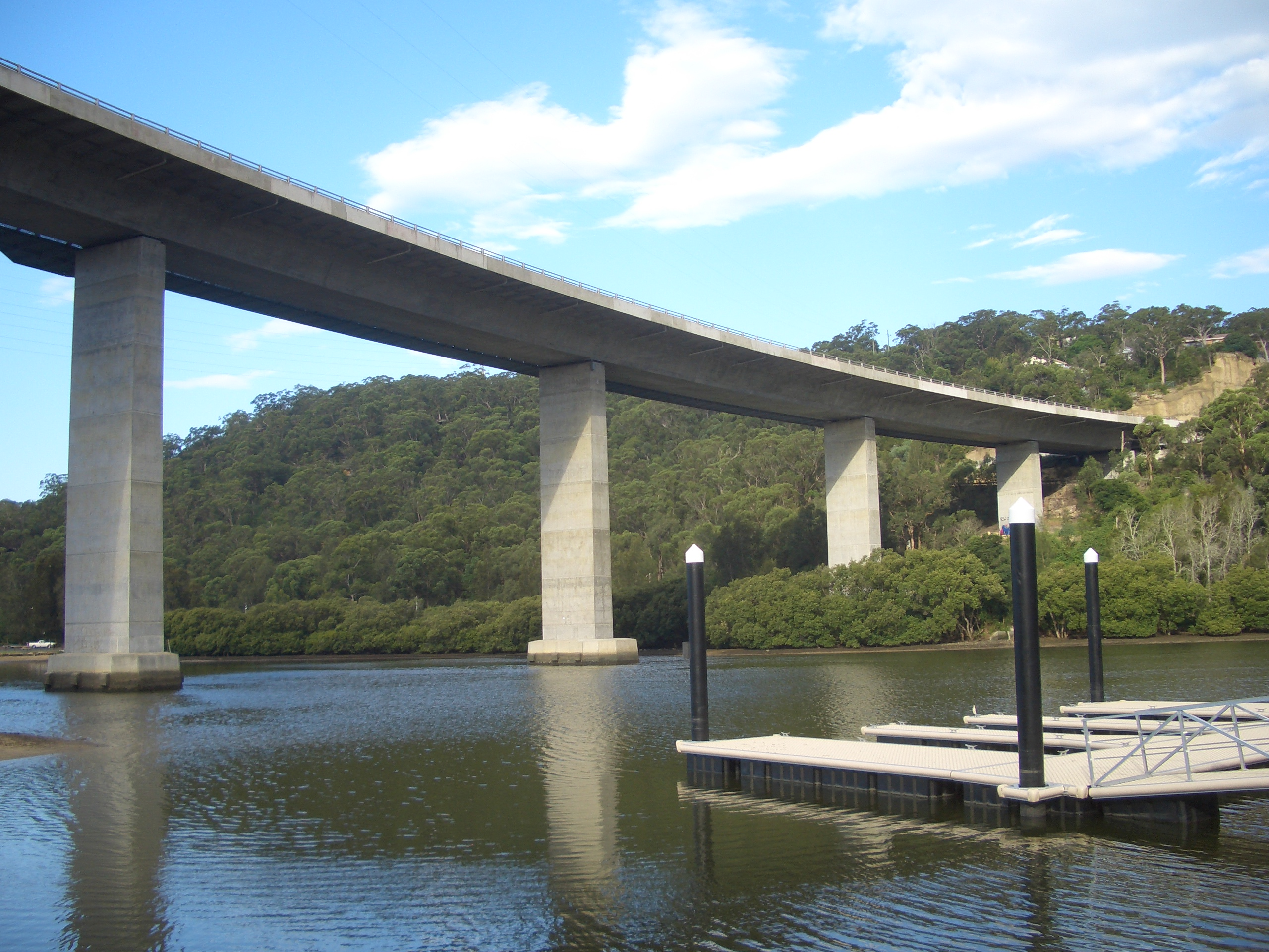 Woronora_Bridge 1.JPG